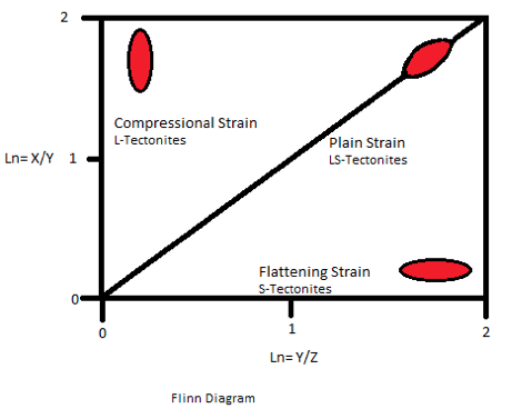 Flinn Diagram showing S, Ls, and L Types